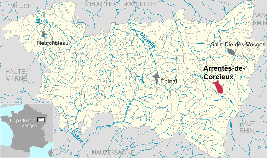 Arrentès-de-Corcieux in the department of Vosges, Lorraine, France